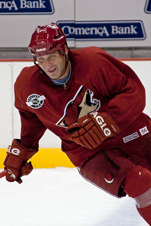 Phoenix Coyotes defenceman Ed Jovanovski during a team practice in September 2010.